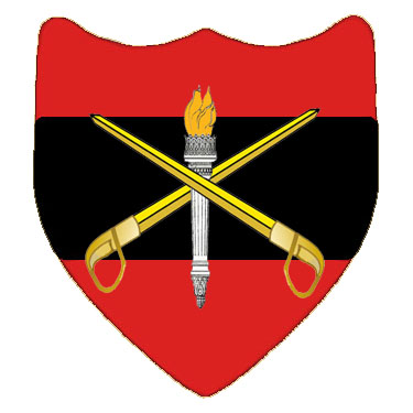 The shield(emblem) of the Training Command of the Indian Army